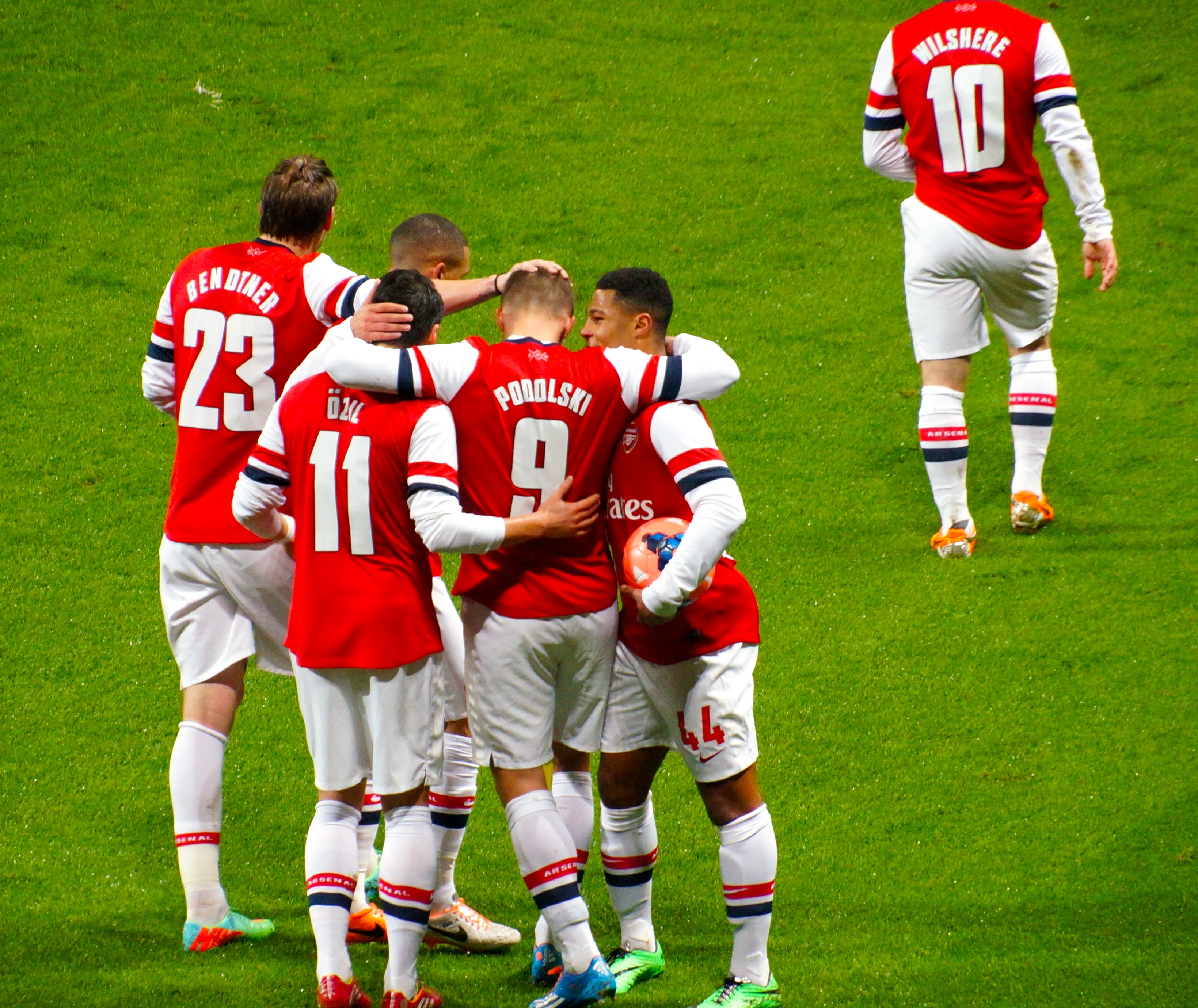 Arsenal players celebrate a goal